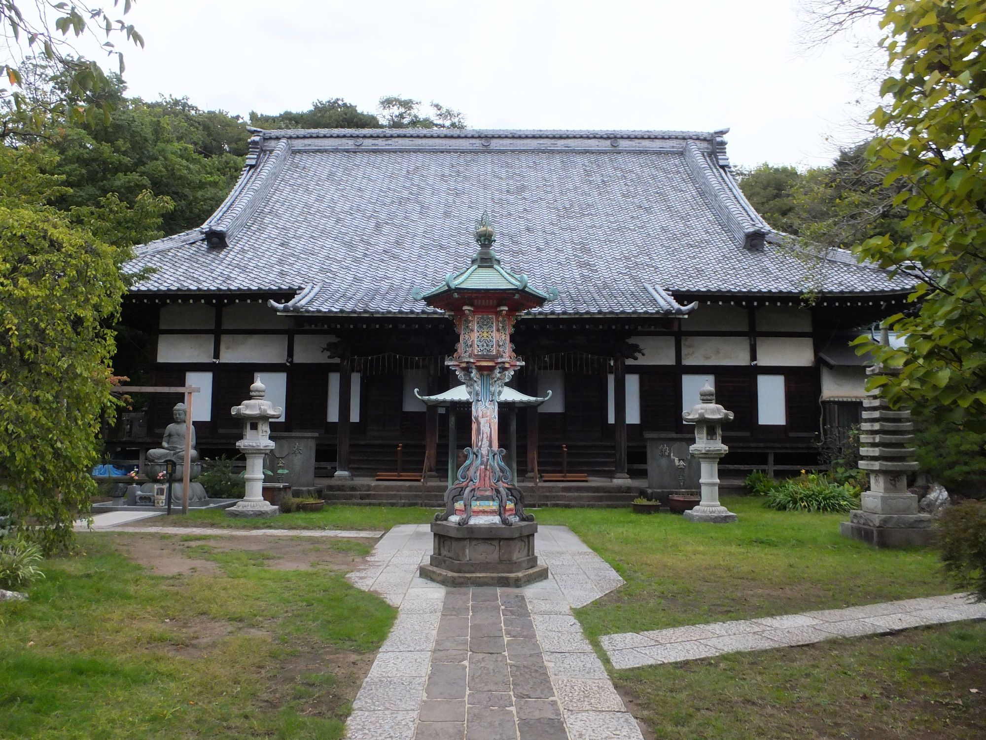 Main hall of Konzō-ji temple in Kōhoku-ku, Yokohama